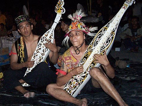 Two Dayak Orang Ulu men from Sarawak, Malaysia, playing the sapeh, a stringed instrument similar to a mandolin.